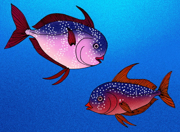 Reconstructions of the Paleocene turkmenids Turkmene and Danatinia from what is now Turkmenistan